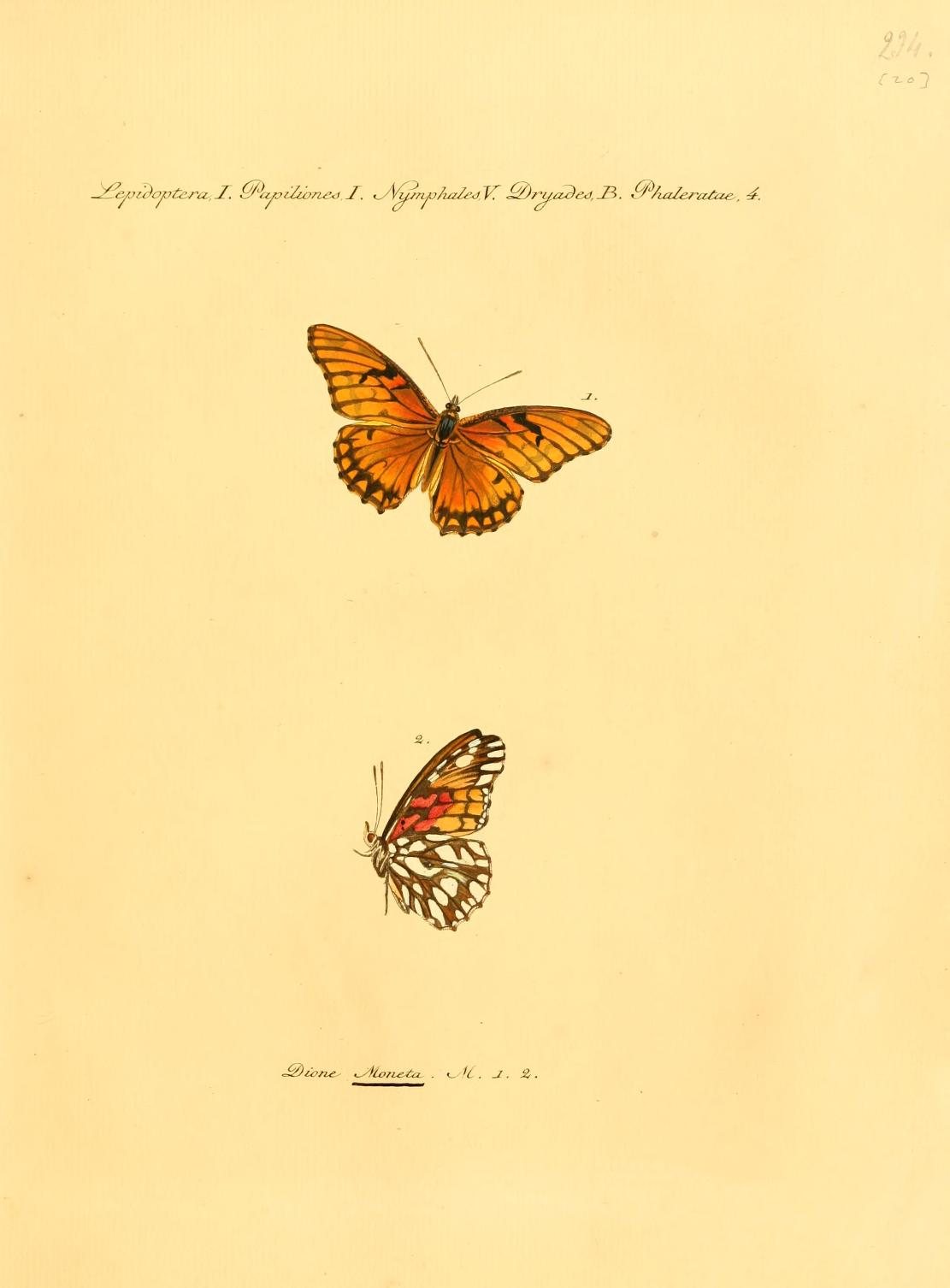 Sammlung exotischer Schmetterlinge Vol. 2 ([1819] - [1827] Plate 20 Dione moneta(Cramer, [1779])